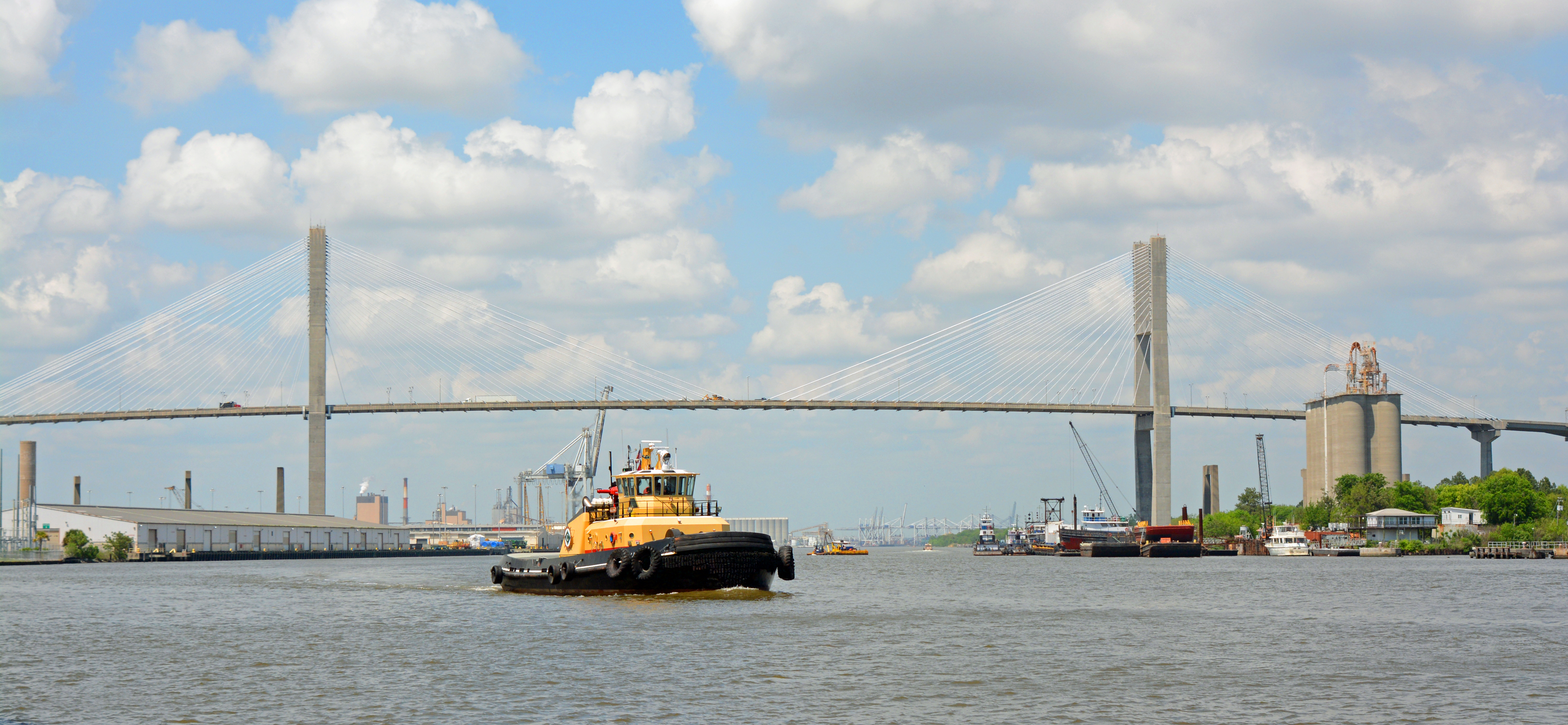 Talmadge Memorial Bridge in Savannah, Georgia, U.S. - crossing the Savannah River